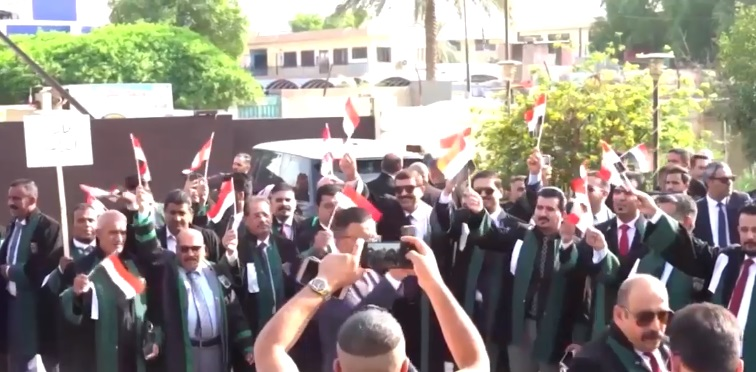 Lawyers demonstrating in Baghdad in support of the uprising - Oct 24, 2019